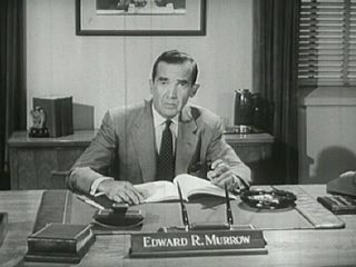 Edward R. Murrow discuss the ideological battle between U.S. and Soviet Union in a Cold War propaganda broadcast.